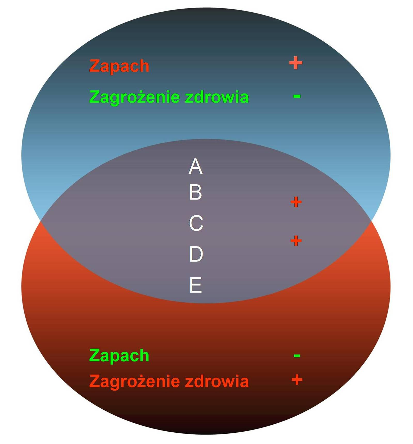 Odour Safety - classification